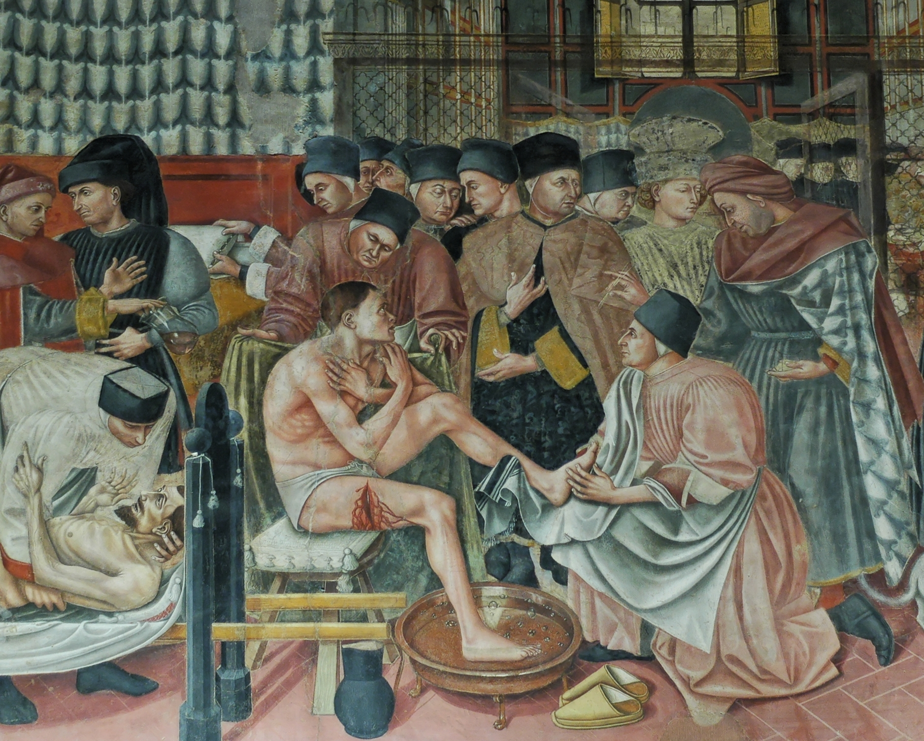 Healing the sick, fresco by Domenico di Bartolo. Sala del Pellegrinaio (hall of the pilgrim), Hospital Santa Maria della Scala, Siena.